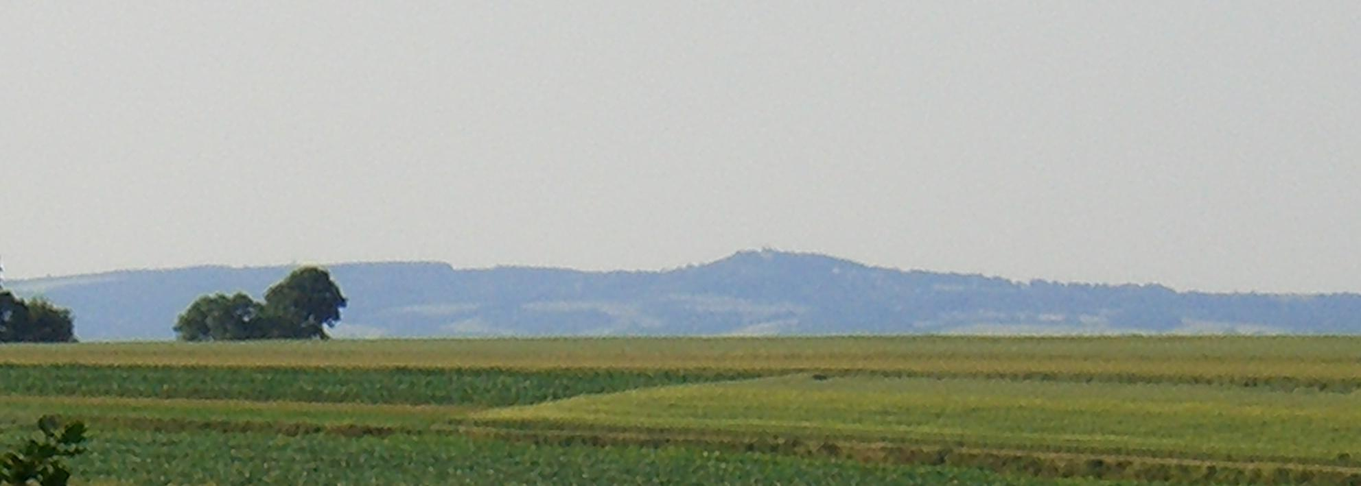 St. Ann Mountain the photo has been made from south, 25 km distance